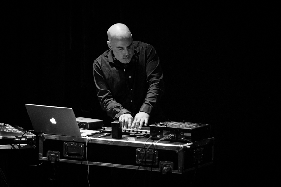 Jan Bang in a concert with Eivind Aarset & Jan Bang at Belleville at Cosmopolite. The concert was part of Kongshaugfestivalen and took place on 17. March 2019 in Oslo. Lineup:Eivind Aarset (guitar)Jan Bang (electronic)Unidentified (drums)